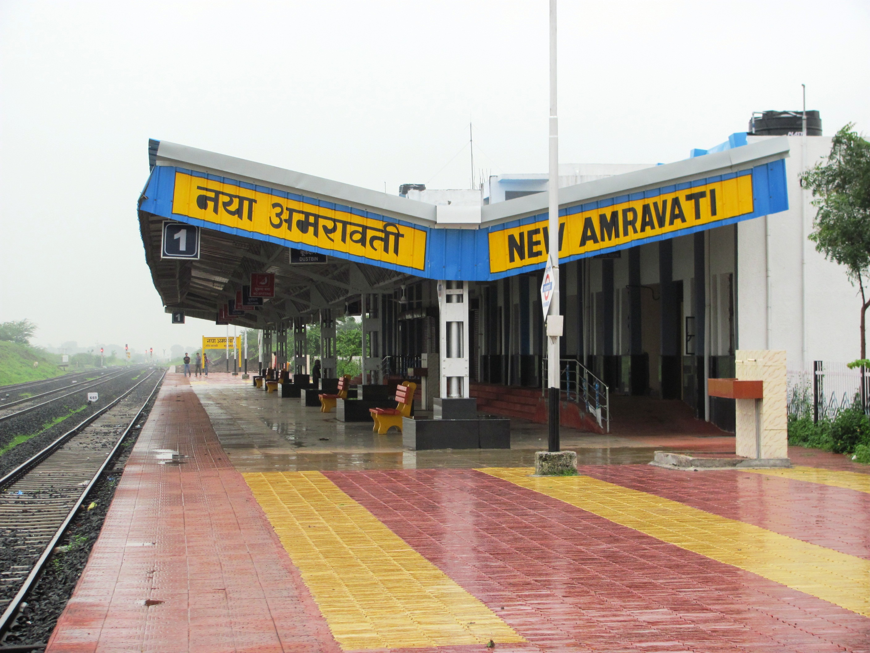 New Amravti Railway Station Platform